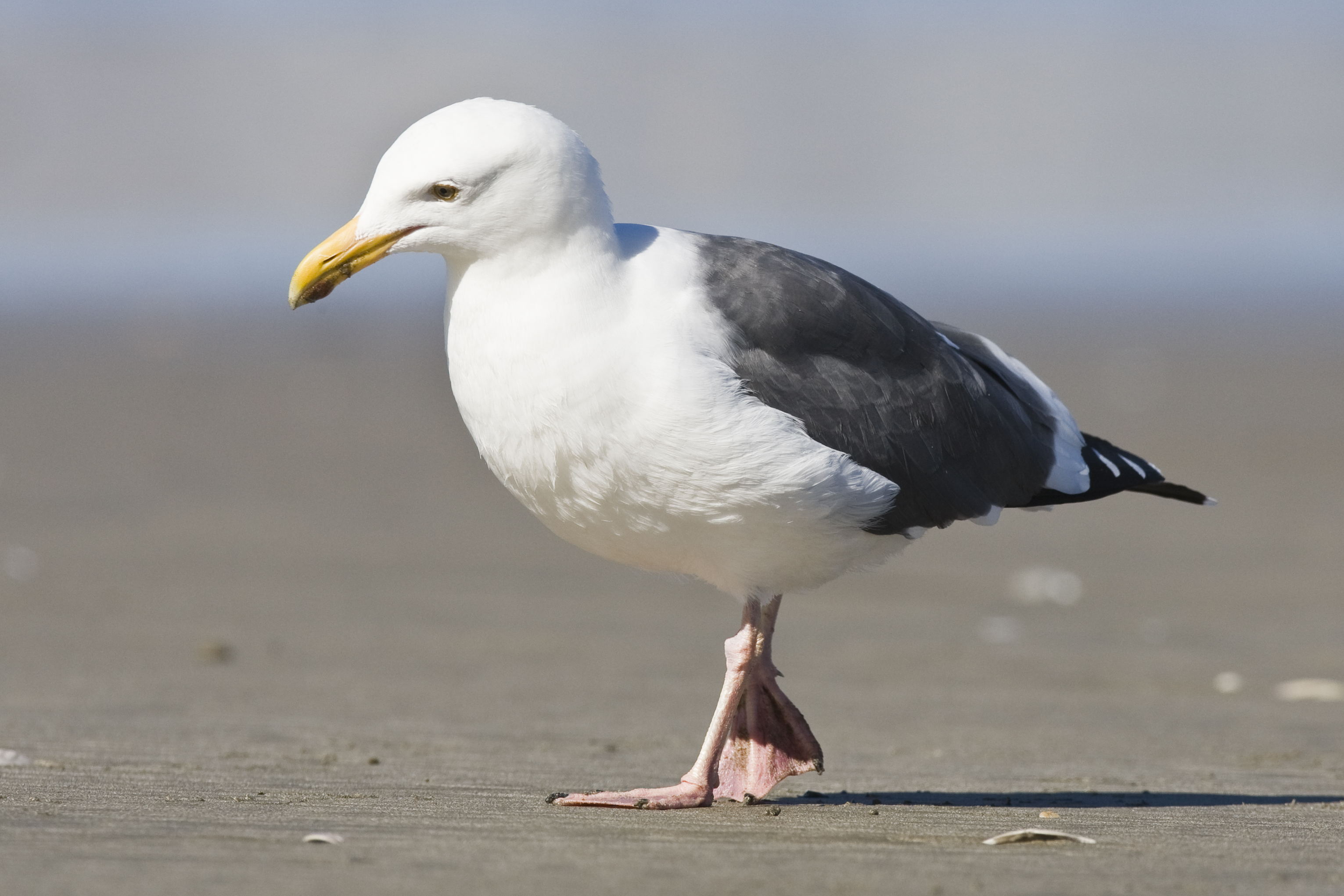 Western Gull (Larus occidentalis) just north of Morro Rock, Morro Bay, CA 23oct2007 - Canon 1D Mark III with 600mm IS, tripod.